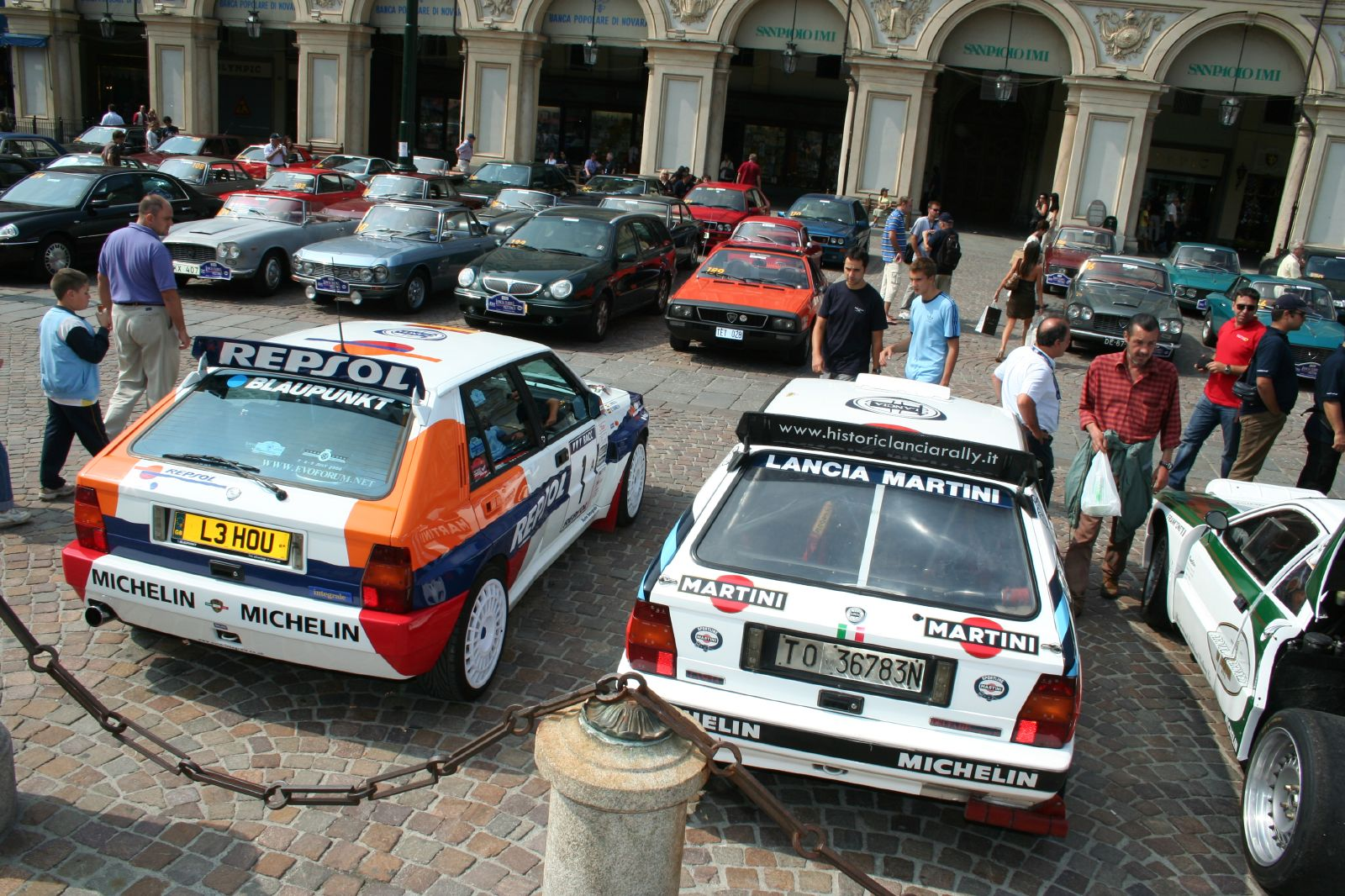 Carlos Sainz's and the Jolly Club team's 1993 Lancia Delta HF Integrale, along with another Delta Integrale, at the Lancia centenary celebrations in Turin in 2006.